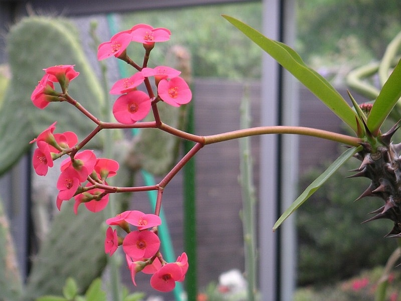 Euphorbia sp.